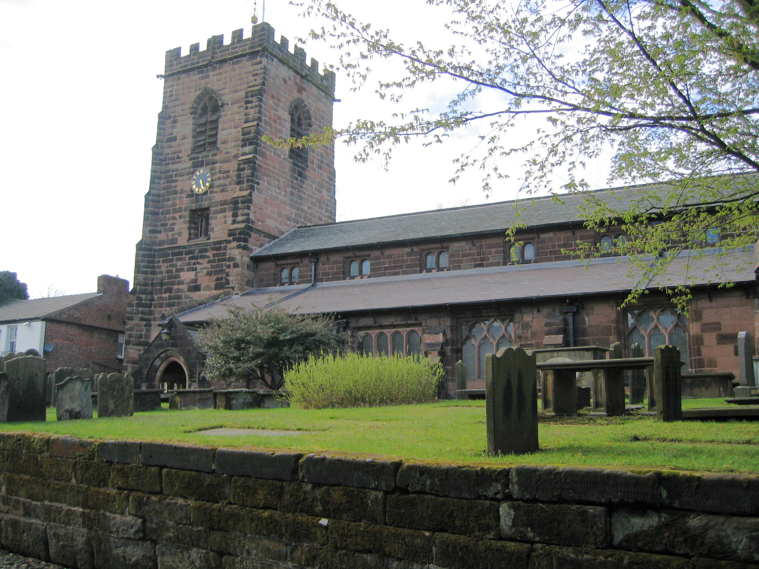 Photograph